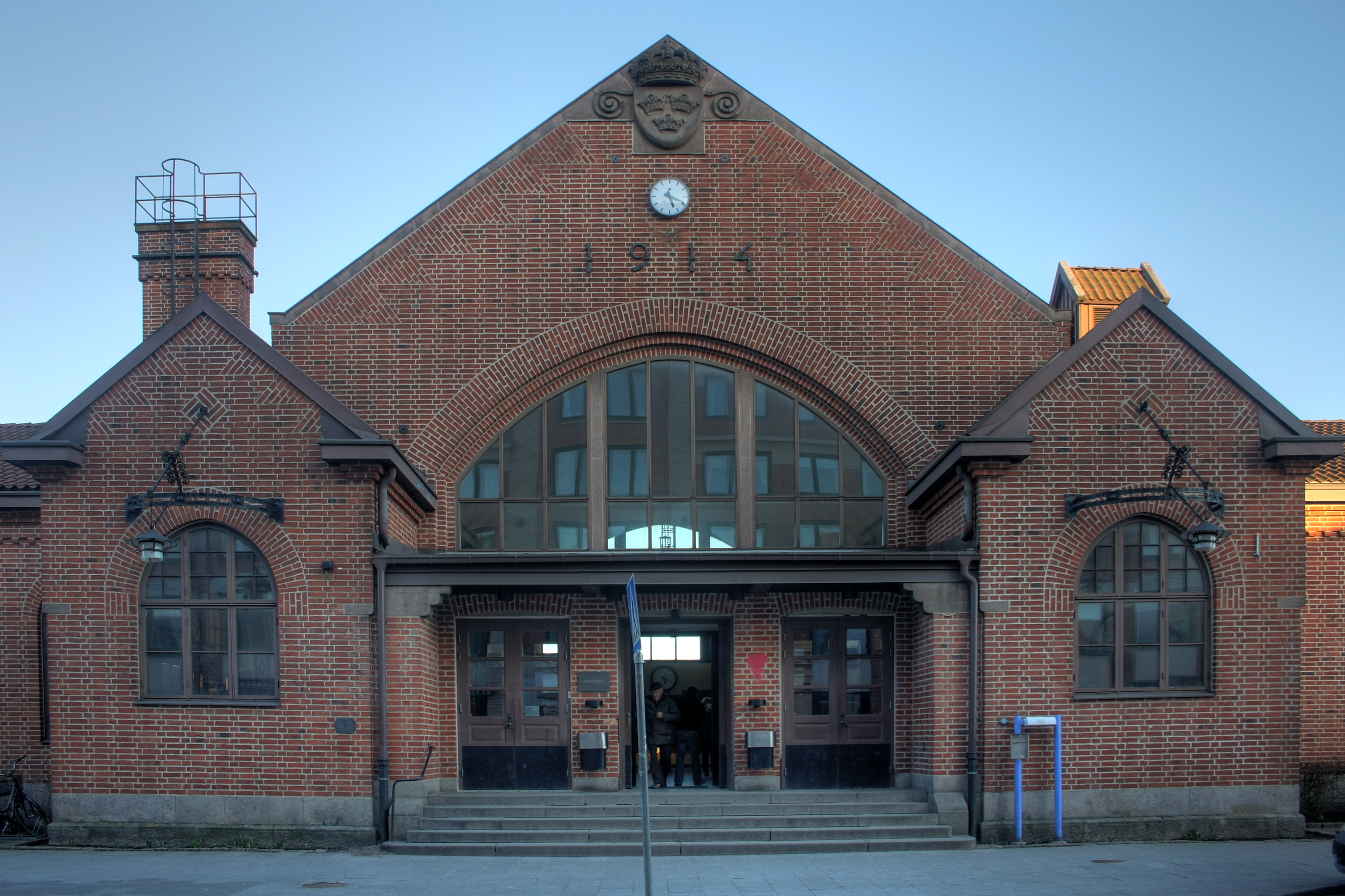 Eslöv train station in Eslöv, Sweden